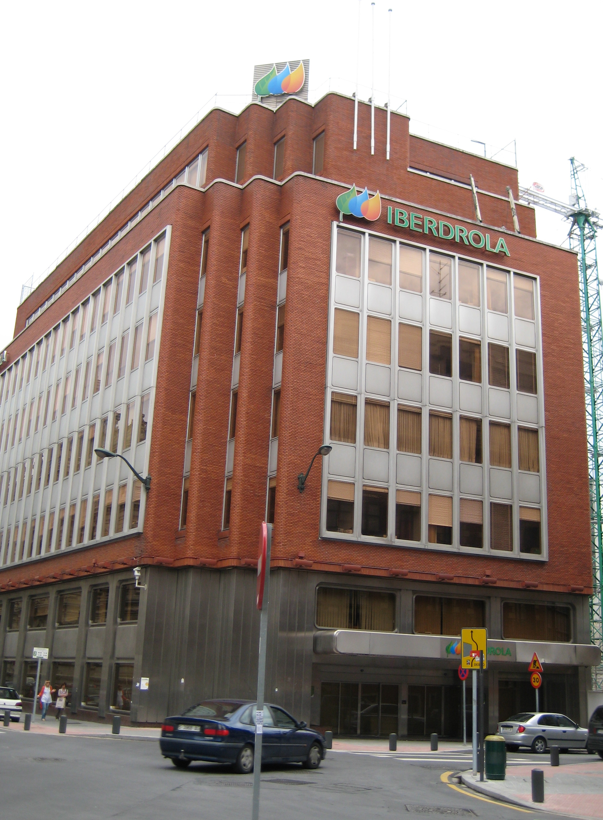 Office building of Iberdrola in Bilbao.